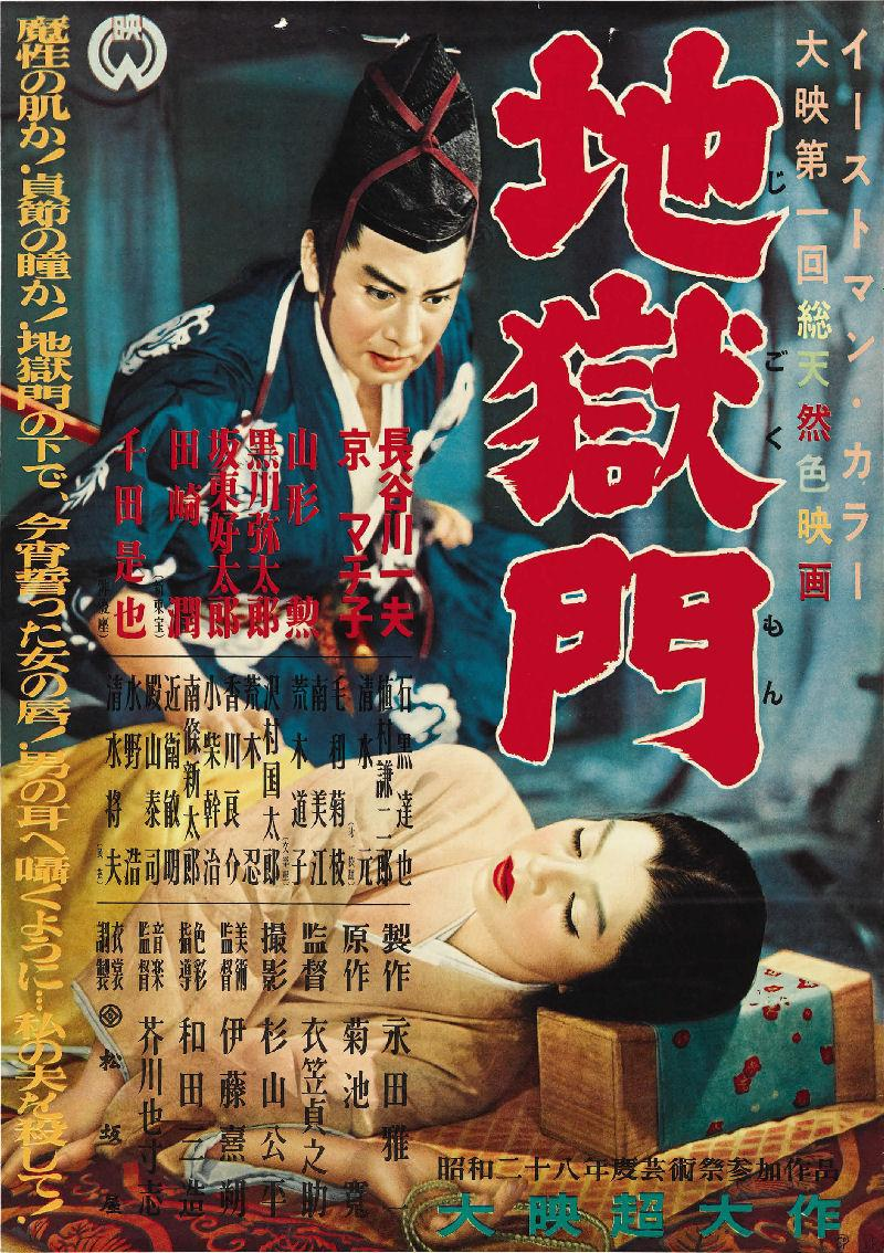 1953 Japanese movie poster for 1953 Japanese film Gate of Hell (Jigokumon). Japanese movie poster depicting Kazuo Hasegawa (up) and Machiko Kyō (down).